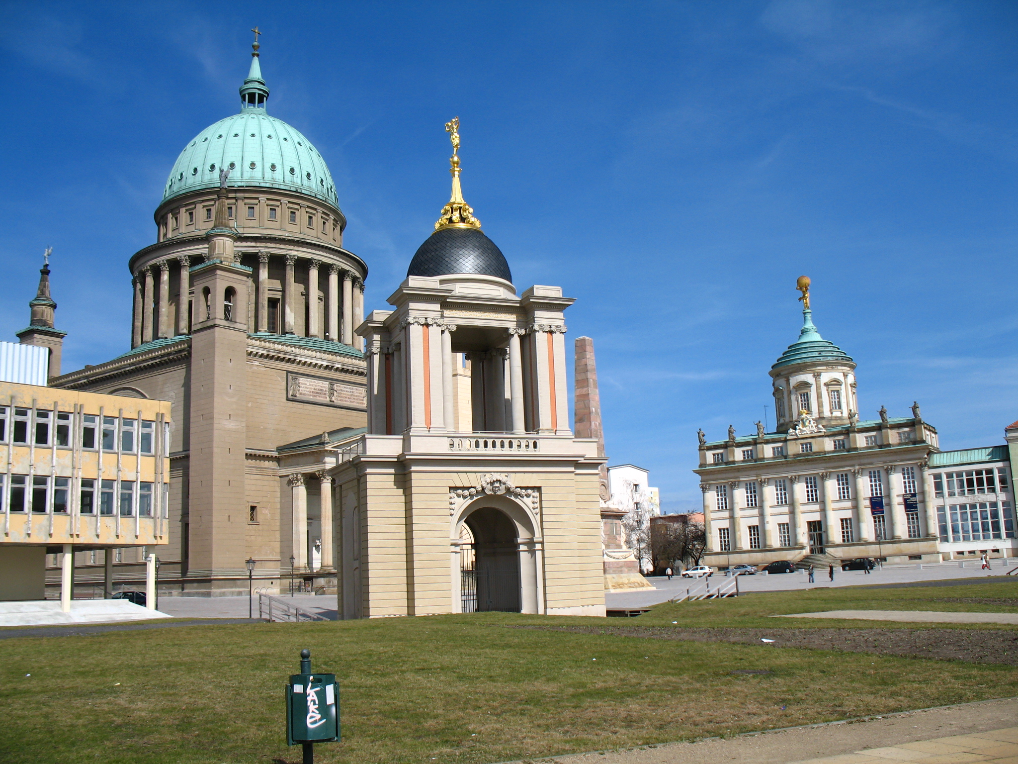 The reconstructed Fortuna porche of the city palace in Potsdam, in the background from left to right: The building of polytechnic highschool (yellow), the St. Nicolas church and the old town hall